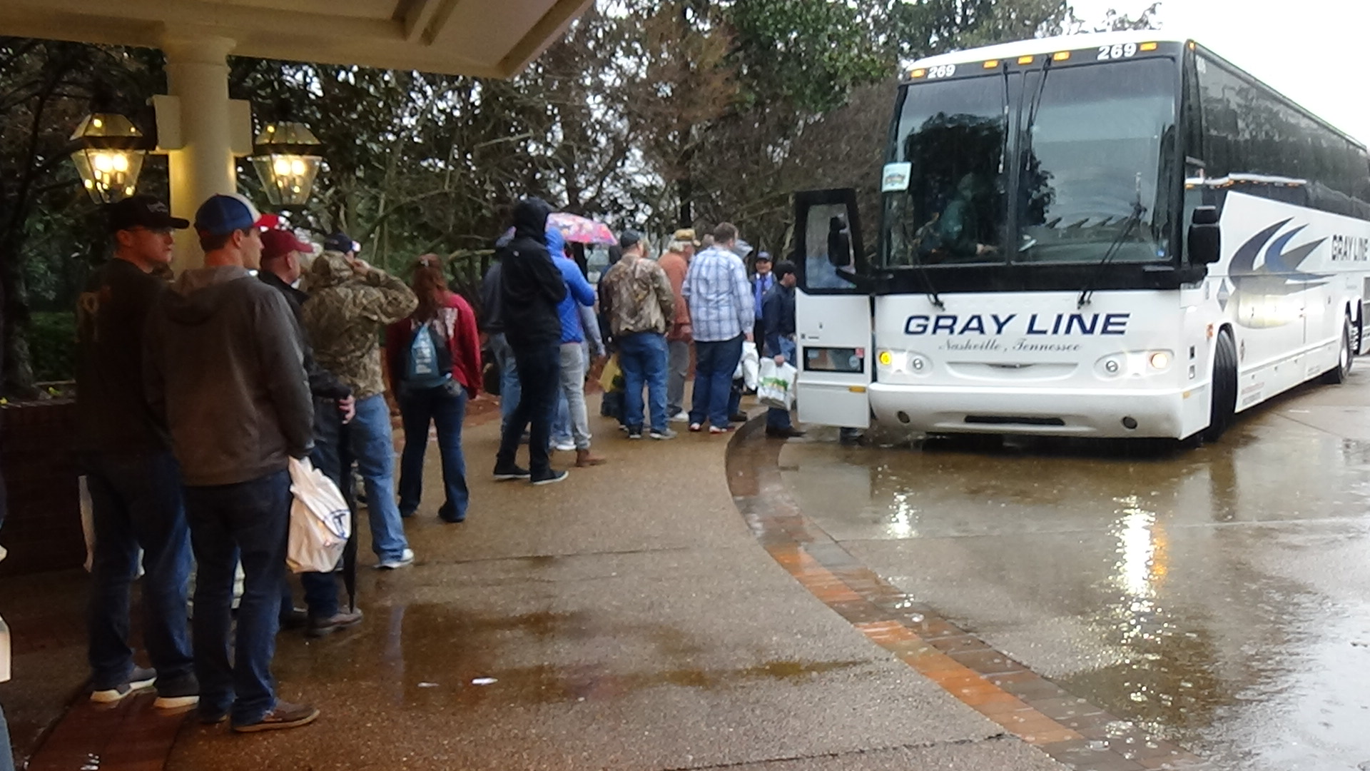 The image shows people boarding the Gray Line bus at the Gaylord Opryland Hotel & Convention Center in Nashville, Tennessee